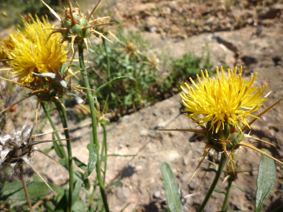 Centaurea saxicola, endemic plant of the Región de Alicante, Murcia and Almería in El Portús (Cartagena, Spain).